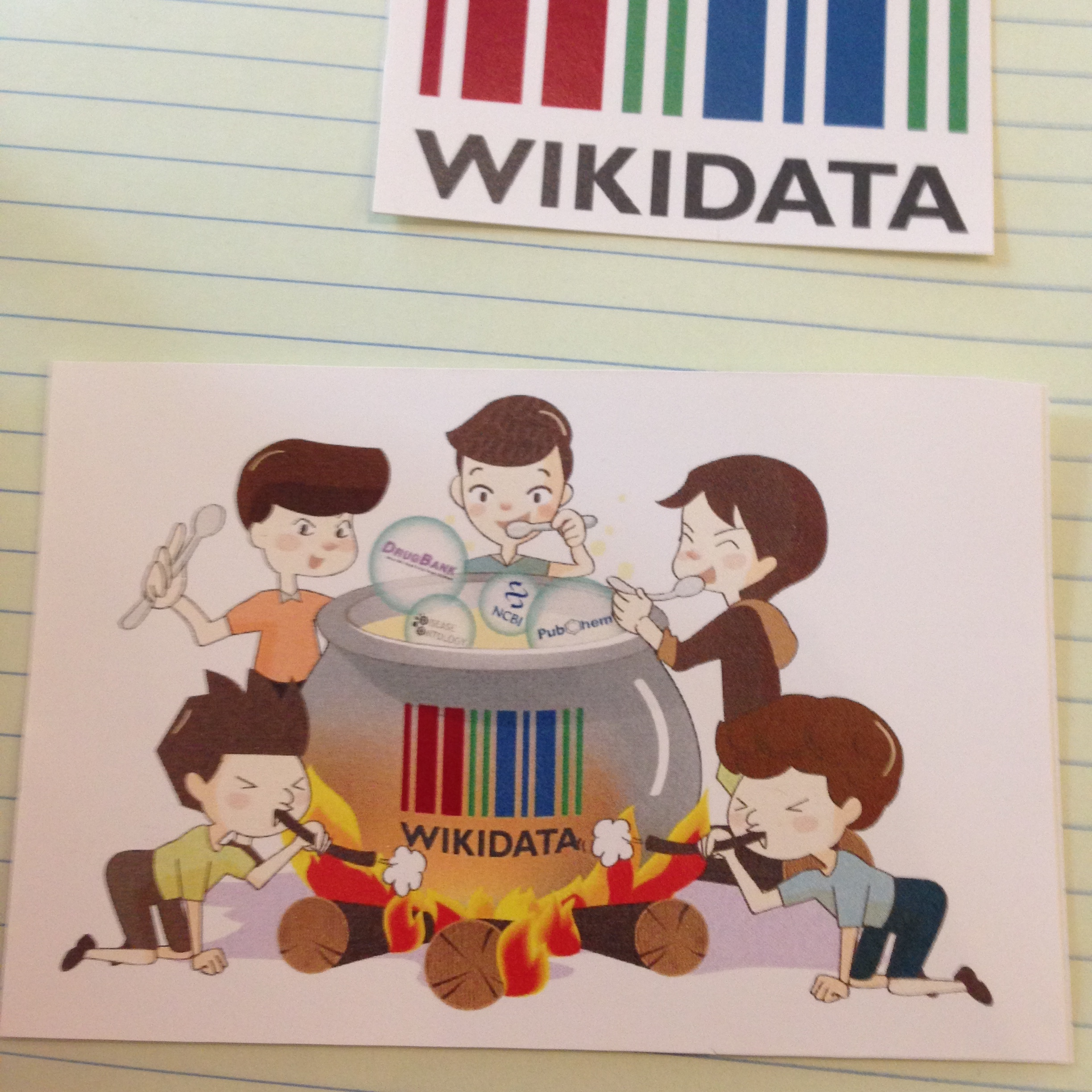 Photo from WikiCite 2016 in Berlin, showing a Wikidata logo sticker and the "Stone Soup of scientific data" illustration by Micelio.